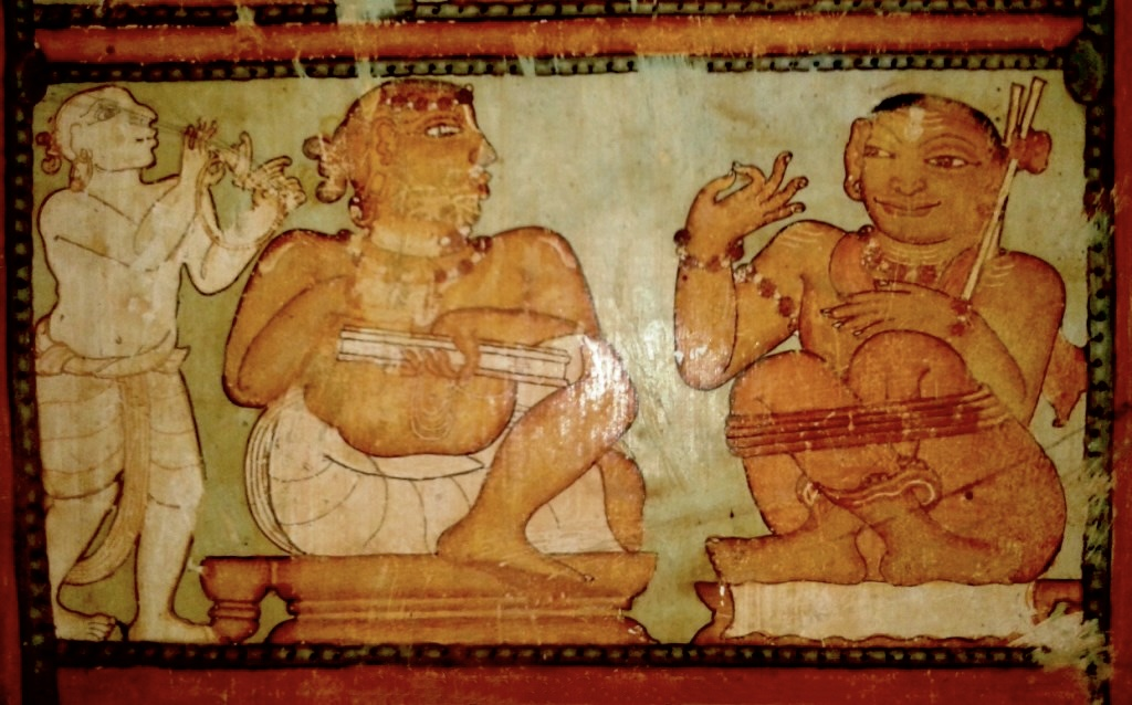 തൊടീക്കളം ചിത്രങ്ങൾ-ശങ്കരാജാര്യർ